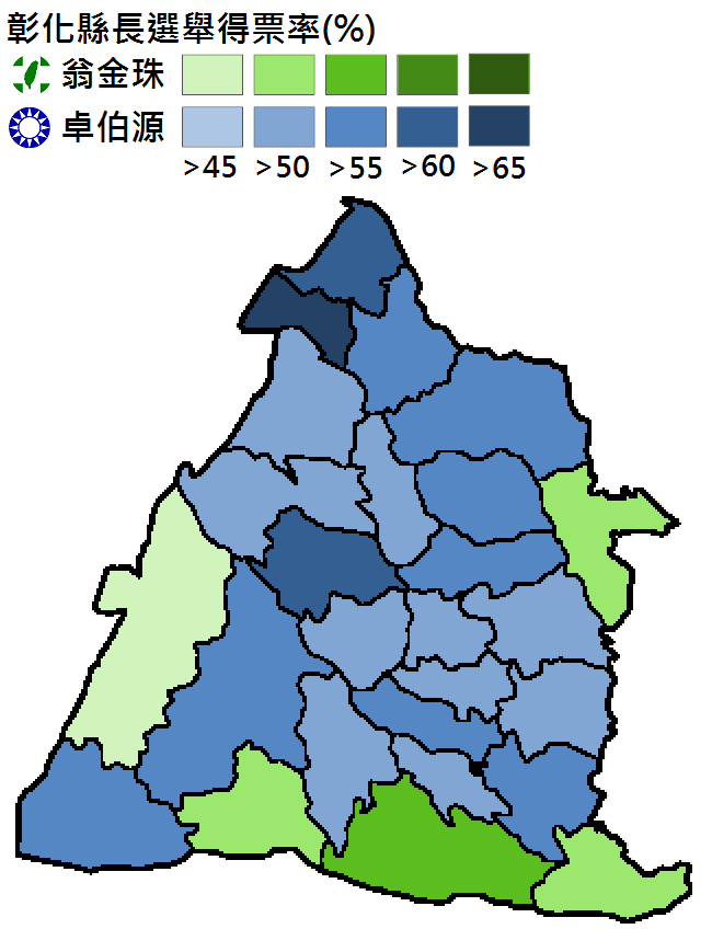 Changhua magistrate election 2009